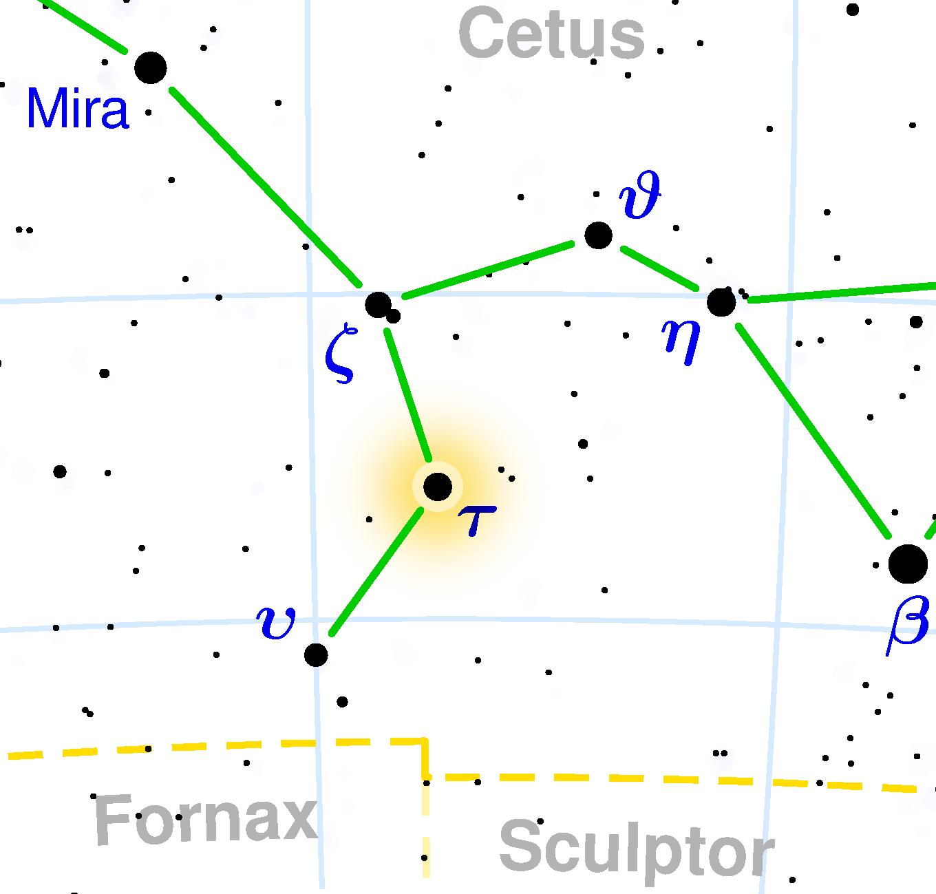 Location of Tau Ceti in the constellation Cetus.